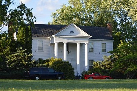 Front of the Perrowville, located on Perrowville Road between Lynchburg and Bedford in Bedford County, Virginia, United States. Built in 1787, it is listed on the National Register of Historic Places.